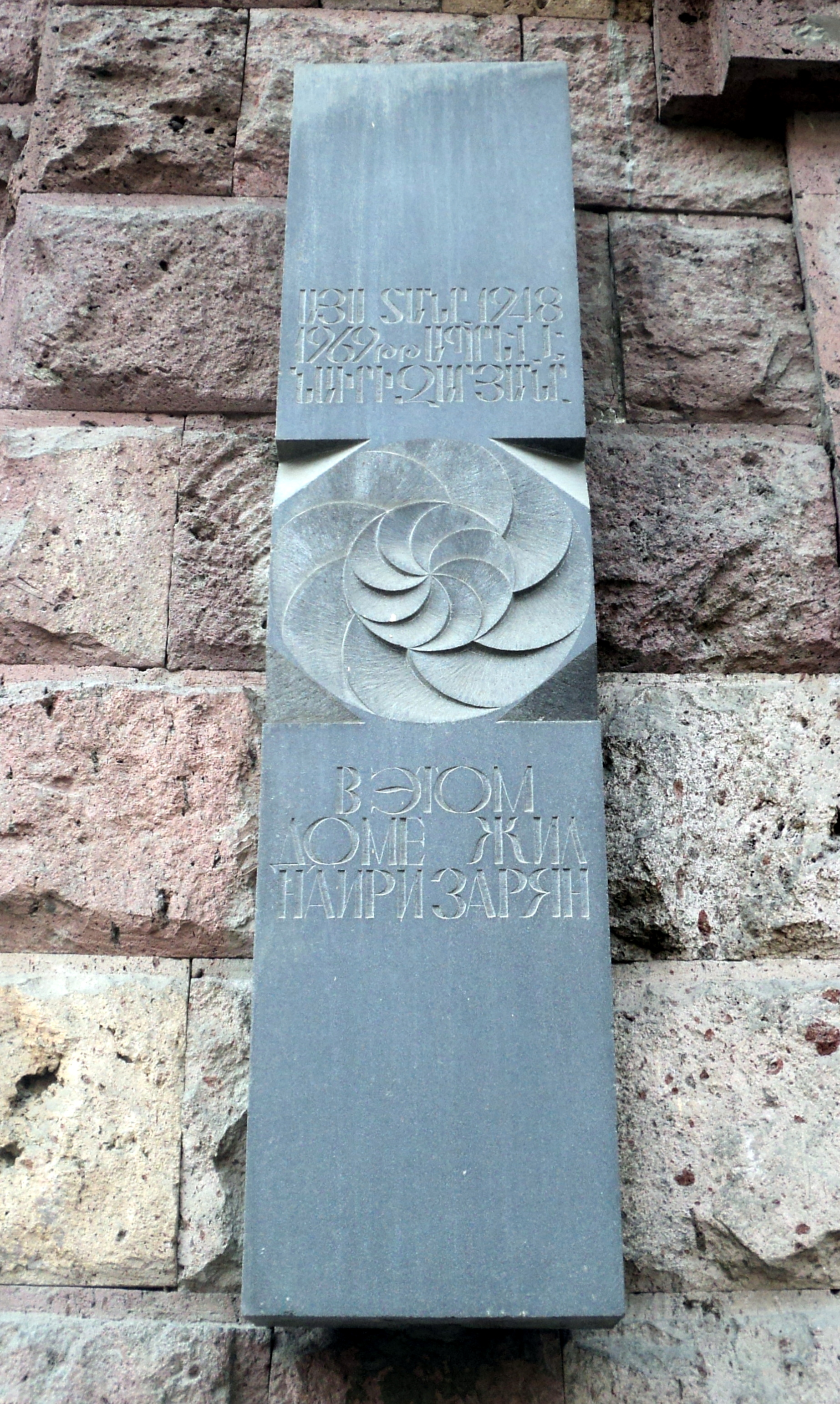 Nairi Zaryan's plaque in Yerevan